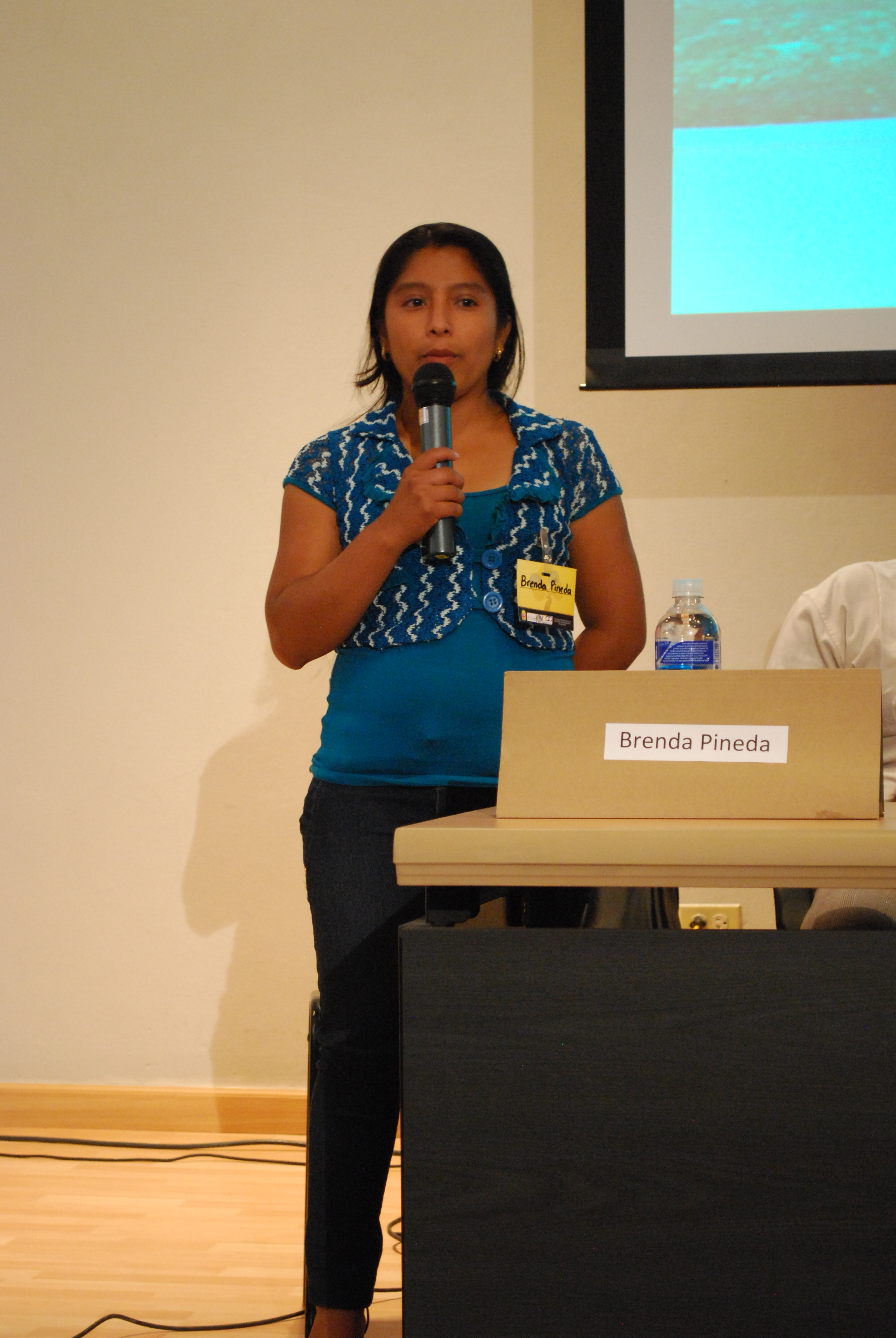 Brenda Suyapa Pineda representing the Chorti people at a forum at the ACALing conference at the Universidad Nacional Autónoma de Honduras